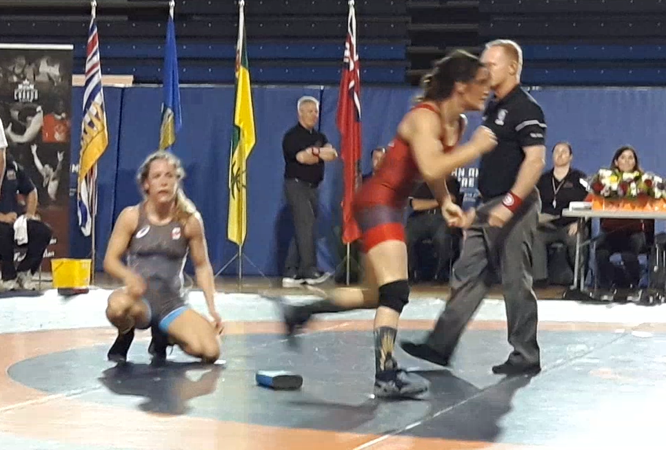 Olivia Di Bacco (M) celebrates after defeating Danielle Lappage in the Women's Freestyle 68kg final at the 2018 Canadian Wrestling Team Trials. Location: Toronto Pan Am Sports Centre (Toronto, Ontario, Canada)